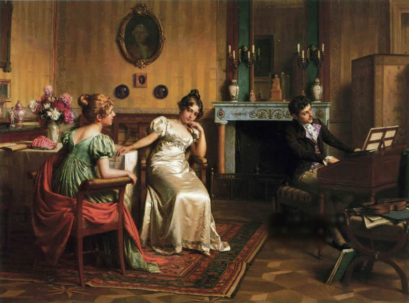 late 19th century painting of early 19th century scene